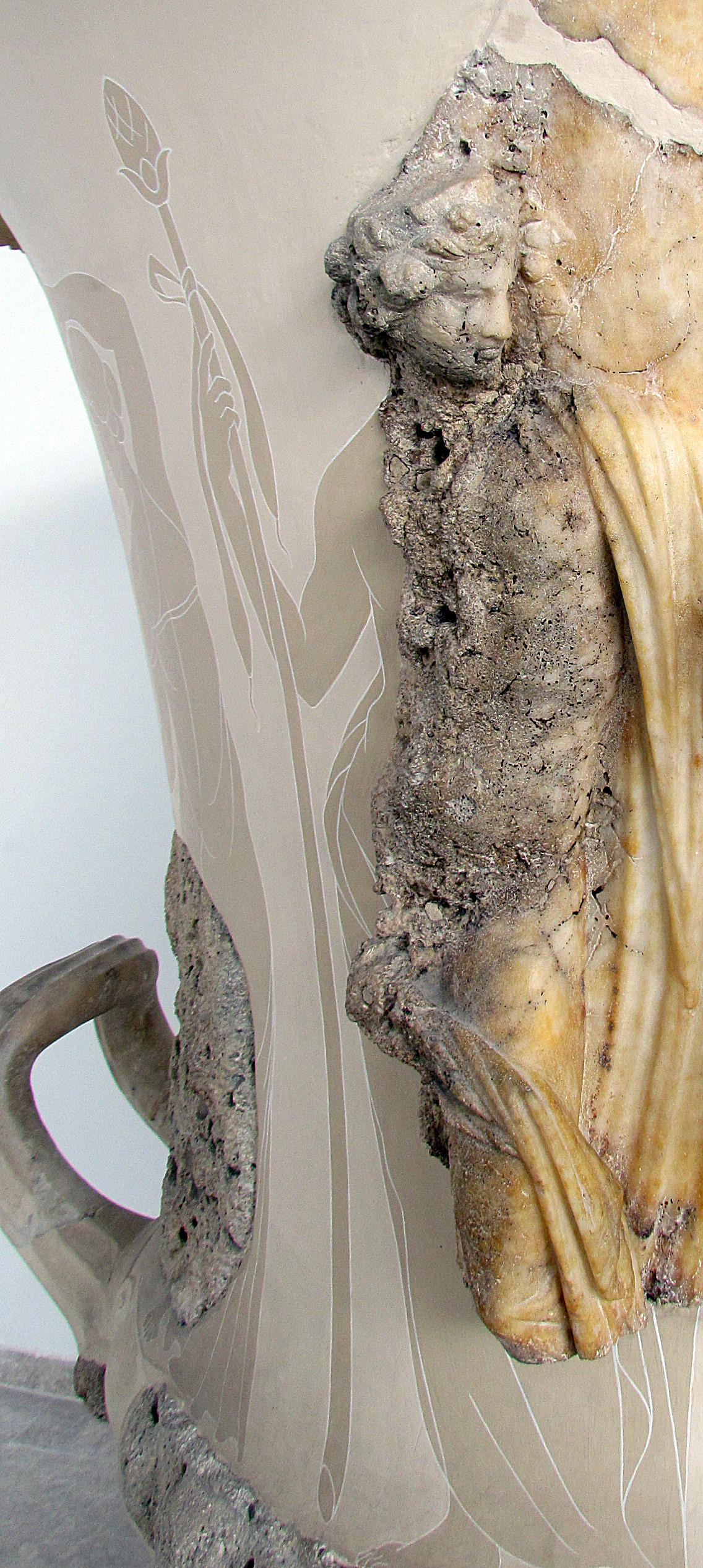 Presentation of thyrsus in the hand of deity on a Krater (Bardo museum Tunis, Tunisia)